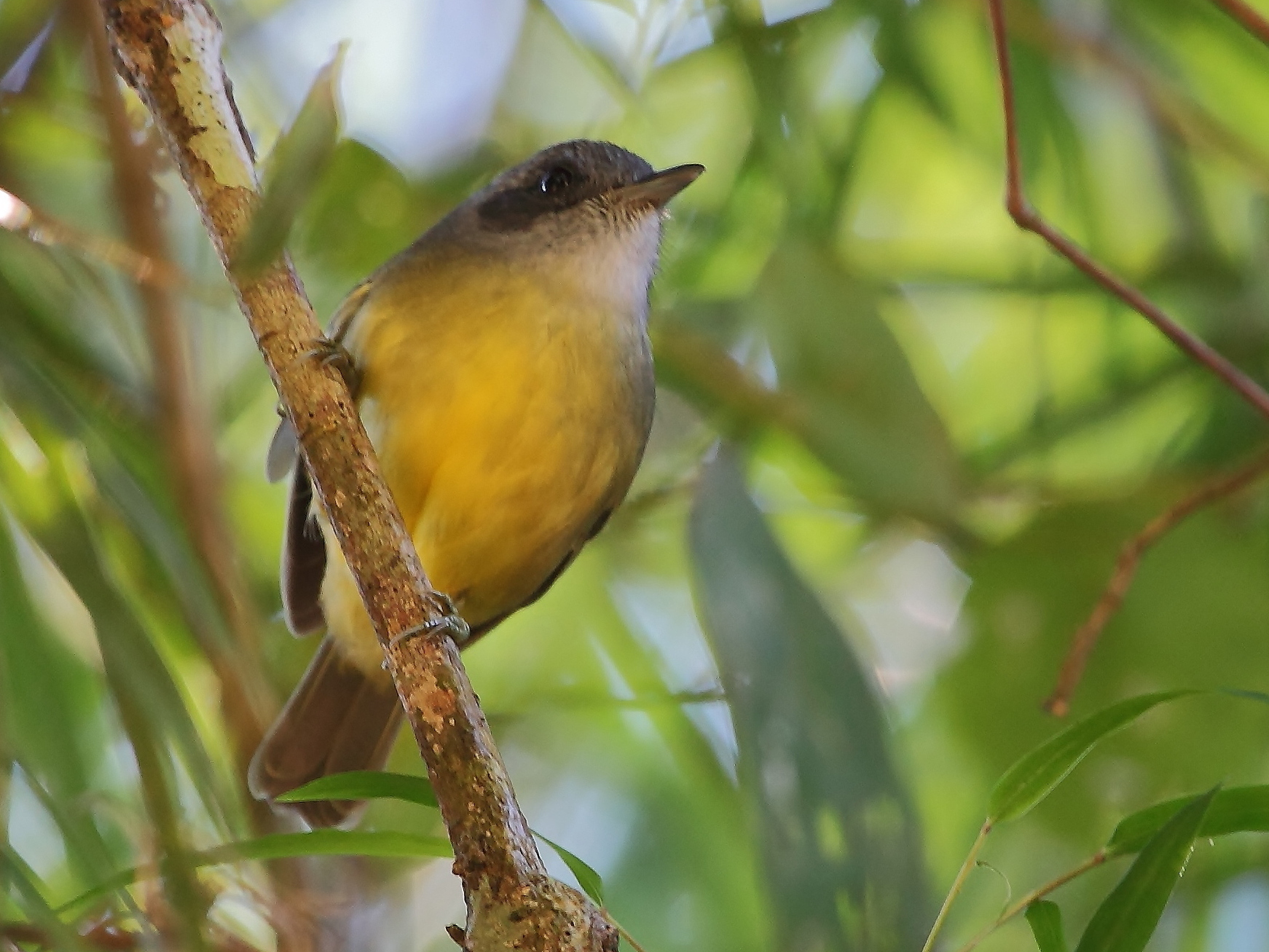 Plain Antvireo (male) at Jacutinga - MG - Brazil